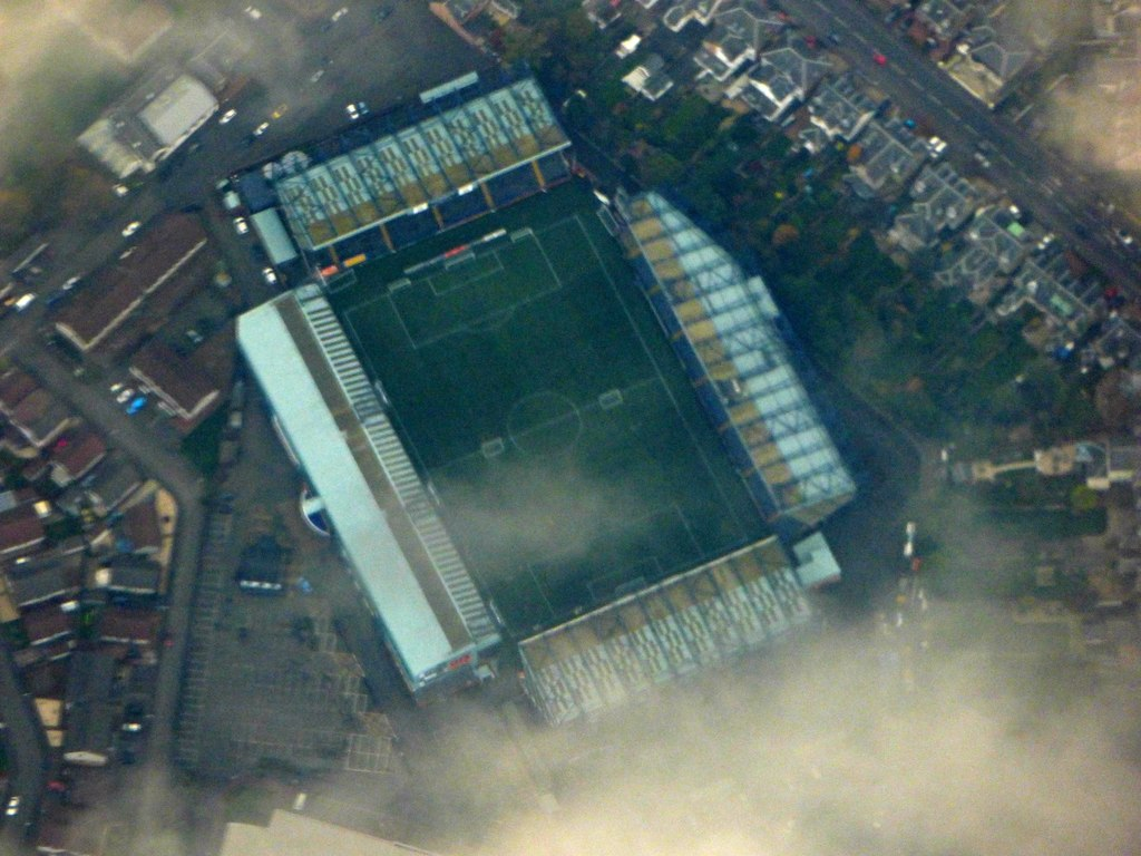 Rugby Park in Kilmarnock